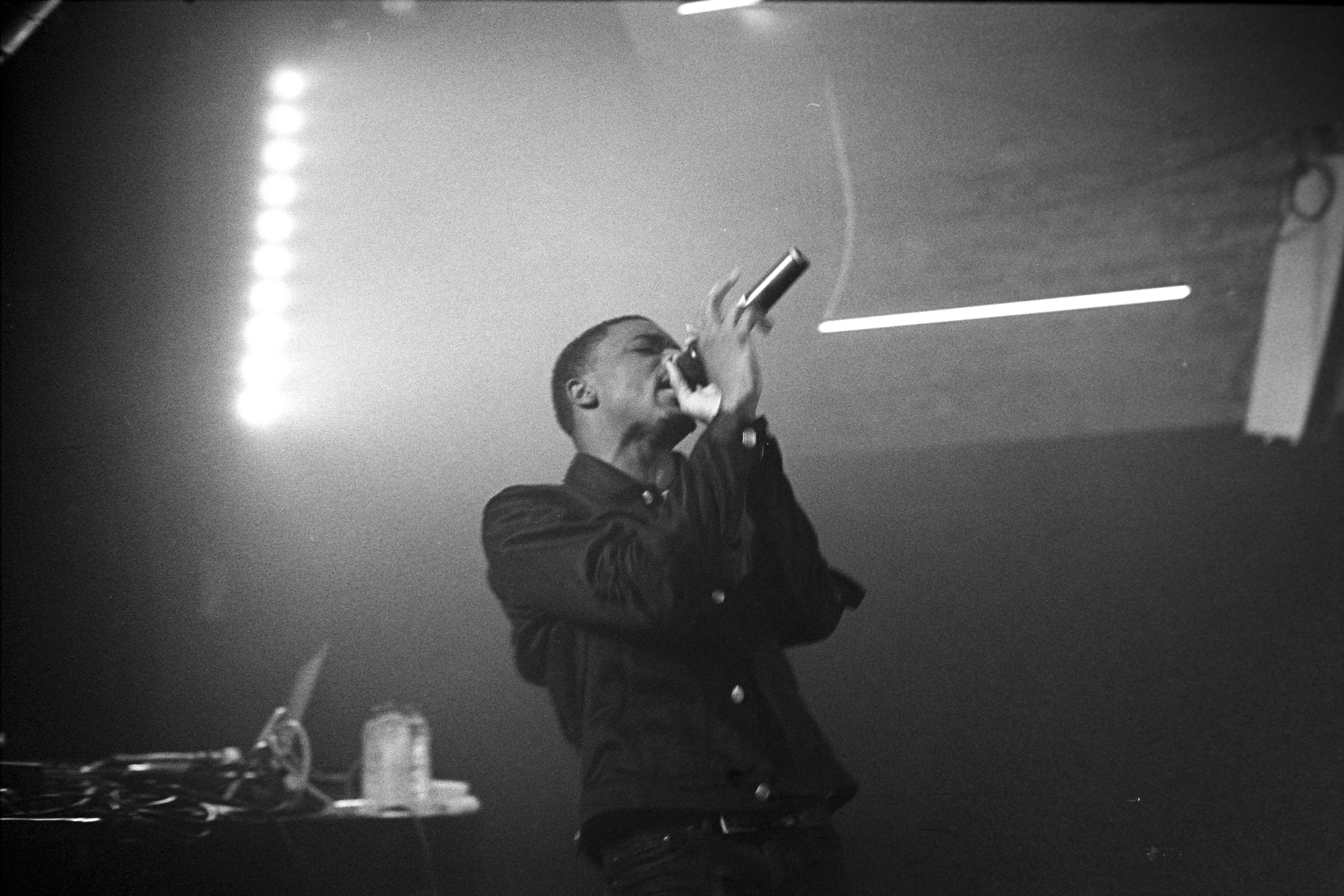 Vince Staples I